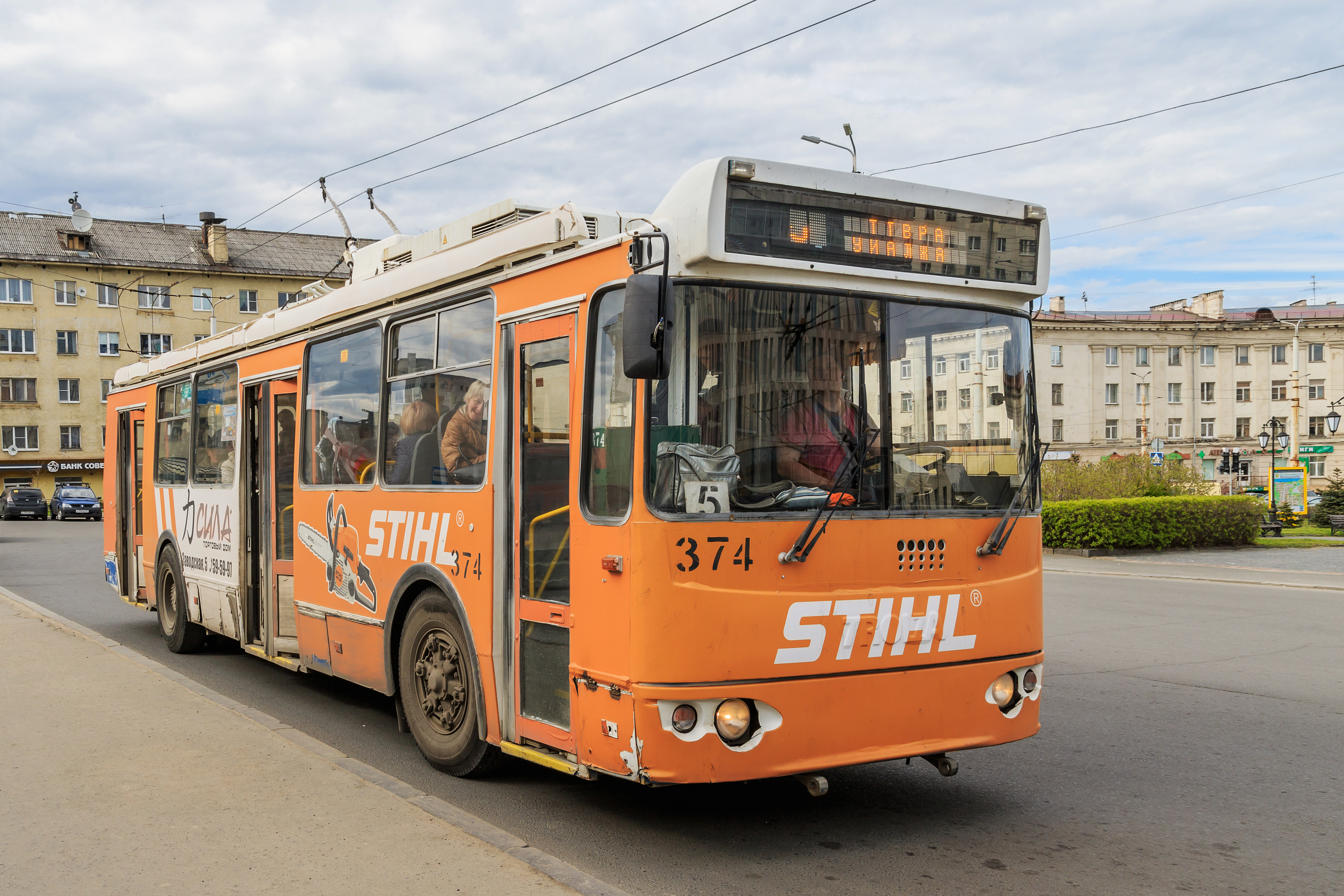 Trolley at the railway station square in Petrozavodsk, Republic of Karelia (Russia).